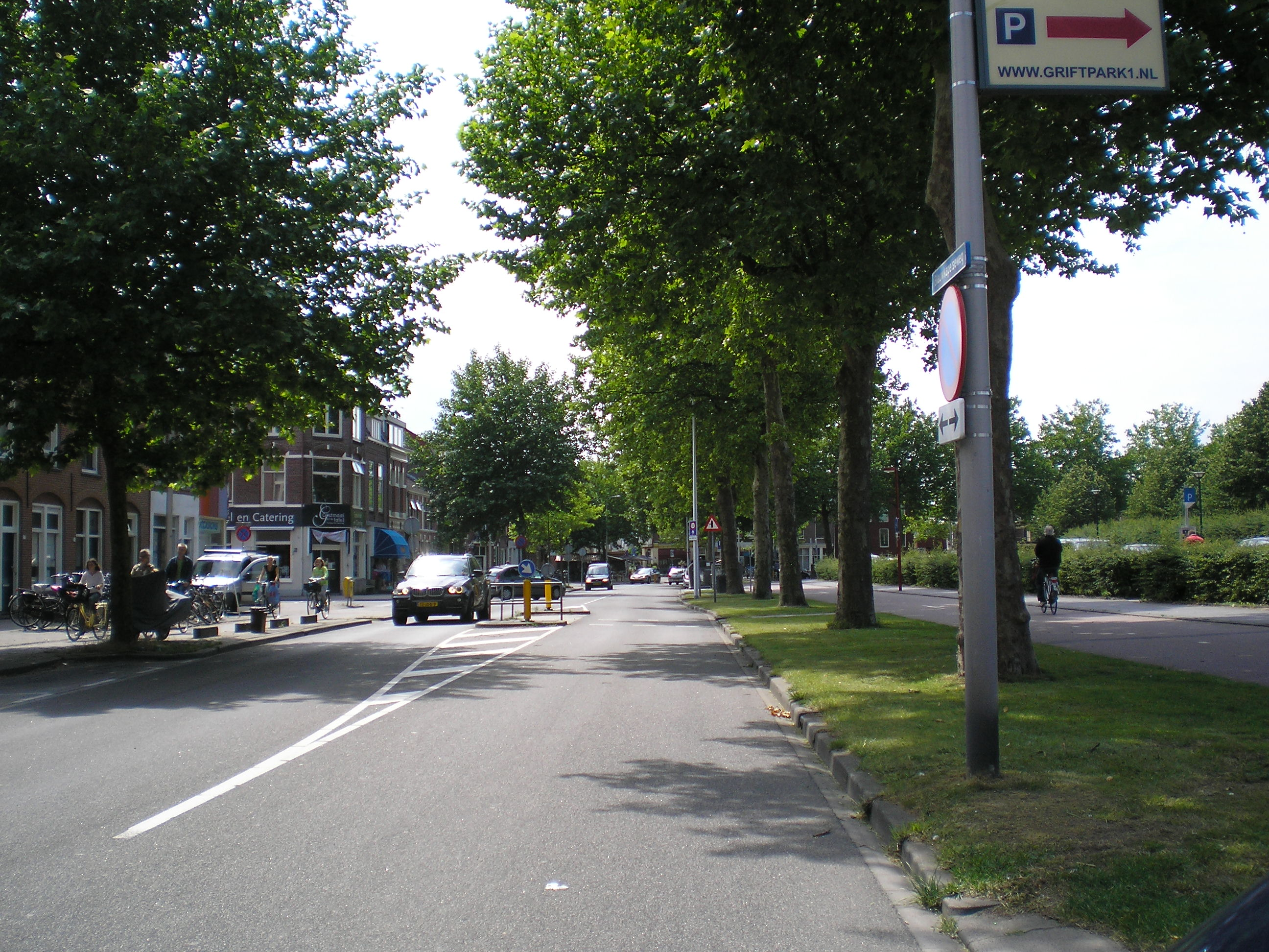 Right Griftpark Blauwkapelseweg in Utrecht in the Netherlands